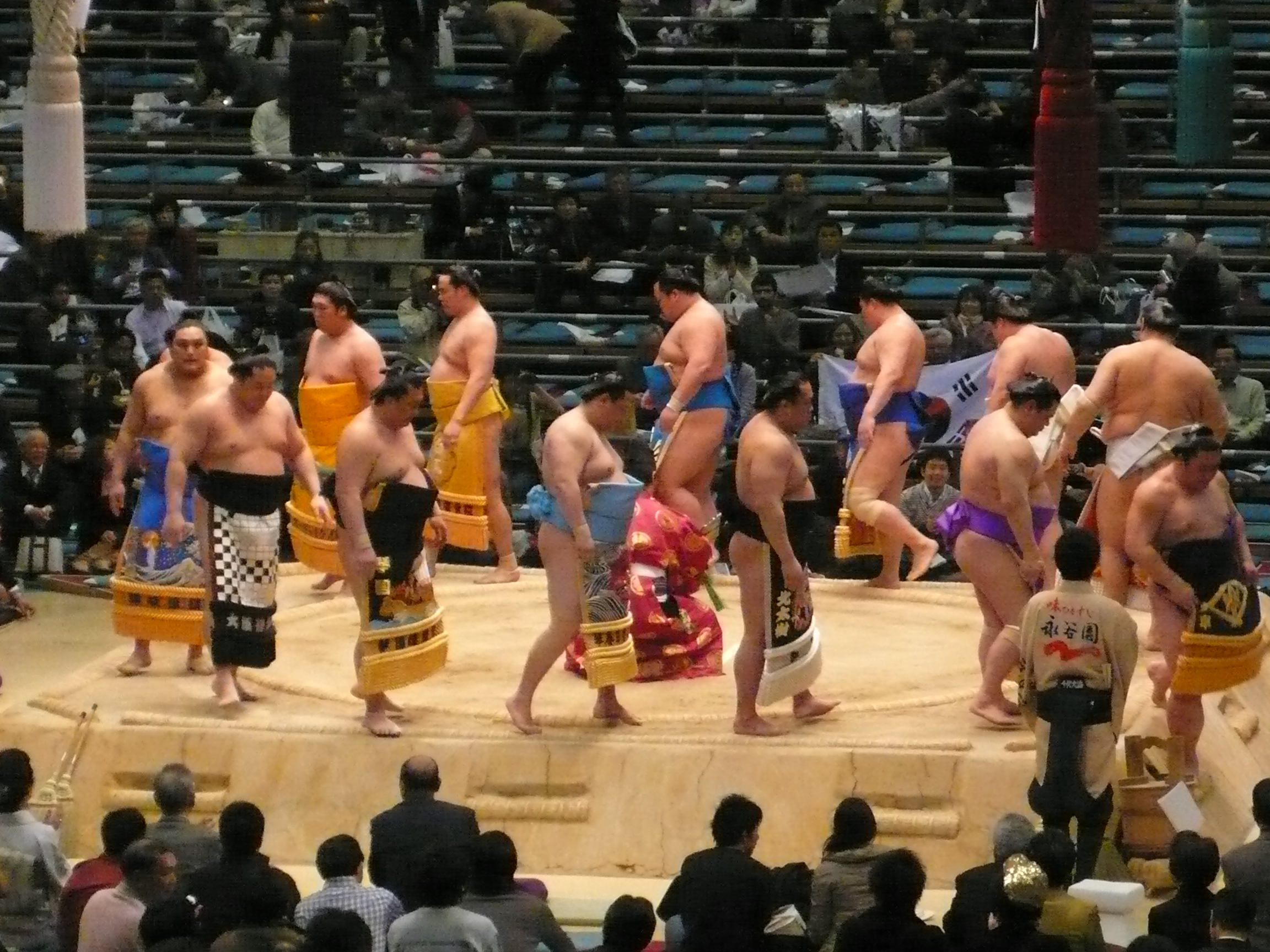 the 2009 Osaka tournament Juryo Dohyo-iri